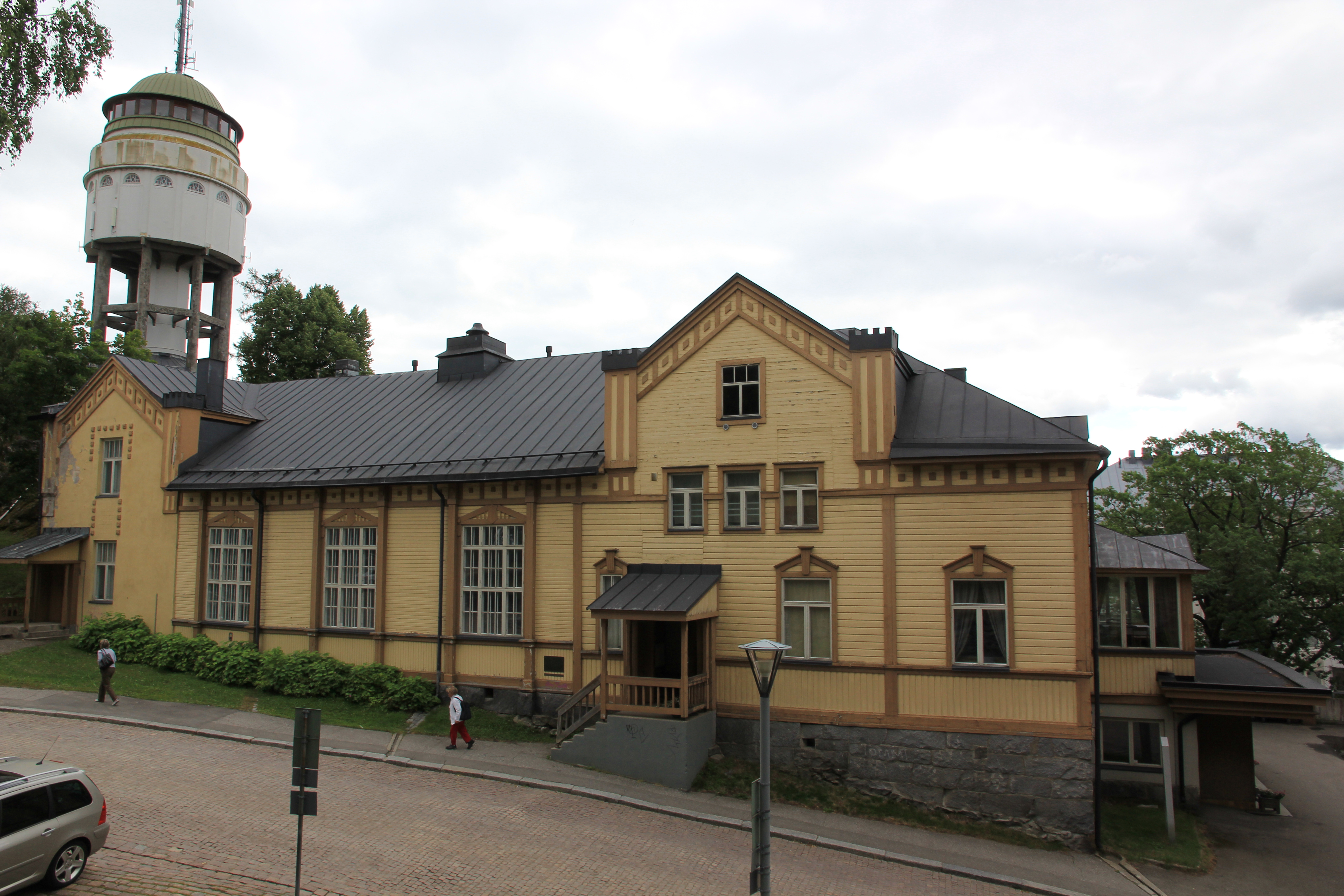 Mikkeli old workers union building and Naisvuori water tower.